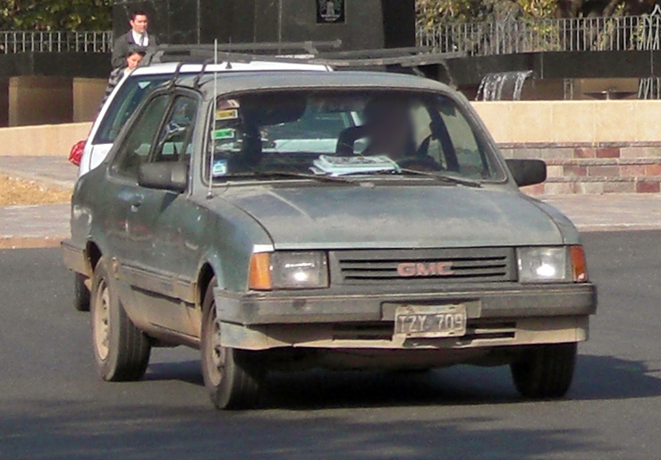 Argentinian-market GMC Chevette two-door